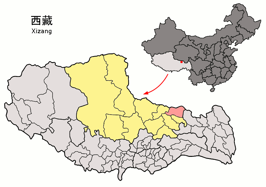 Location of Baqên County (pink) and Nagchu Prefecture (yellow) within Tibet (Xizang) autonomous region of China